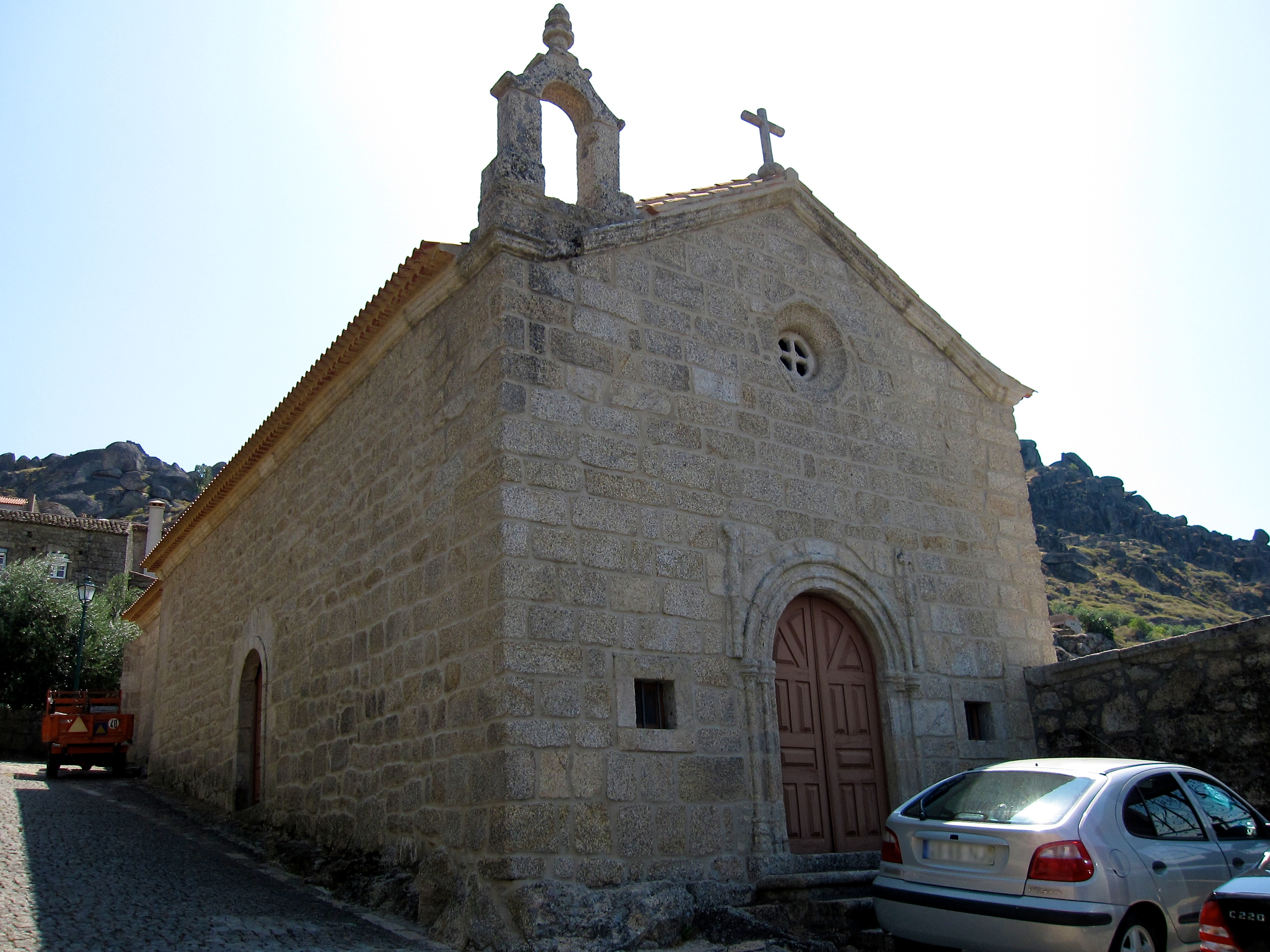 This building is classified as Incluído em sítios classificados. This file was uploaded for Wiki Loves Monuments in Portugal with the unique identifier 97020632.